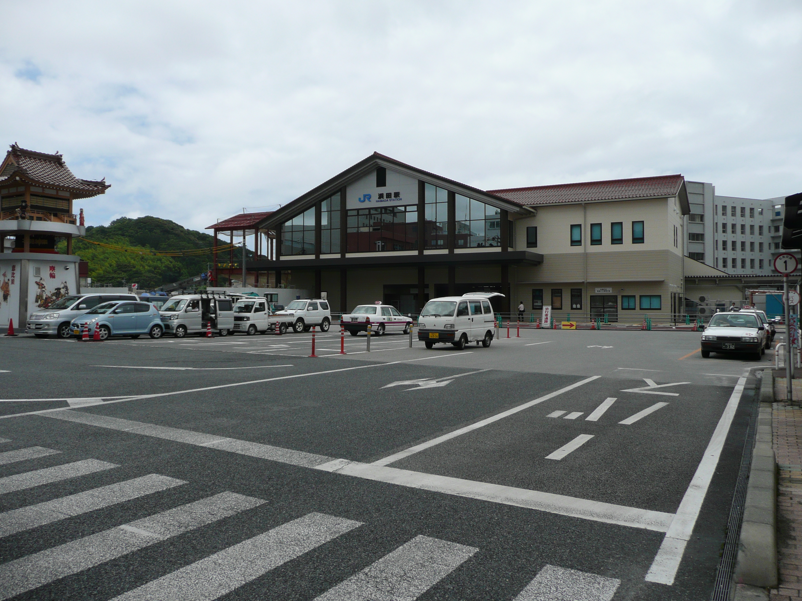 Hamada Station building, the third in its history